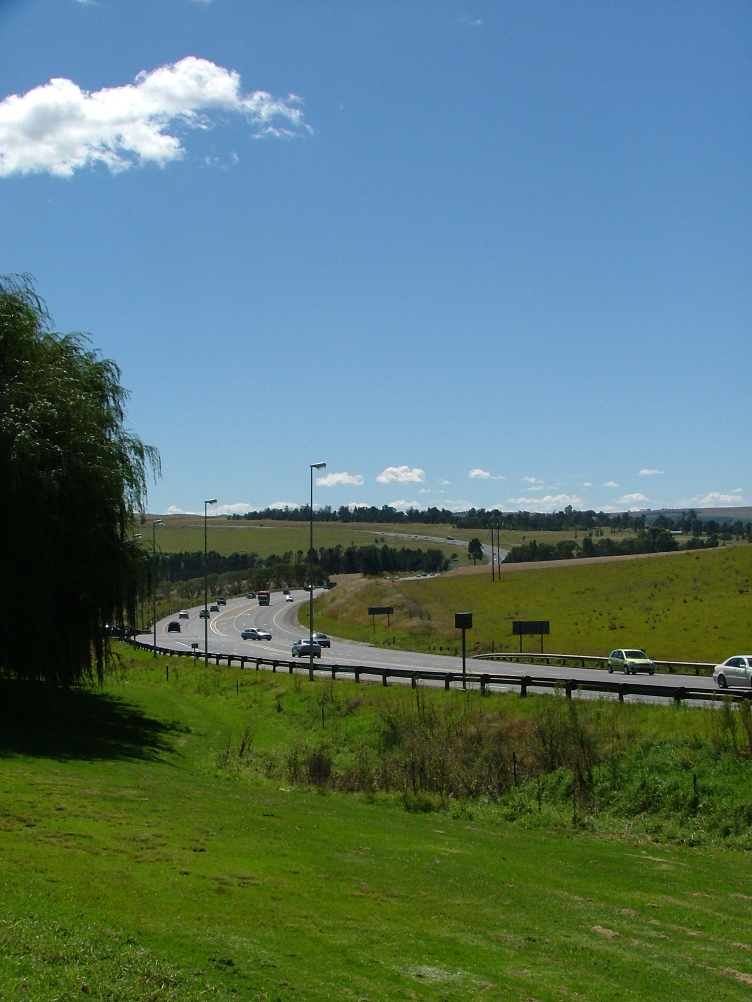 Van Reenen's Pass , Heading towards Johannesburg - N3 National road